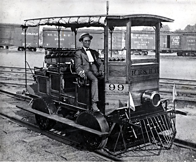 Mr. T. V. Young, the Superintendent of the Mississippi River and Bonne Terre Railroad (also known as M.R.& B.T.) in a track inspection vehicle